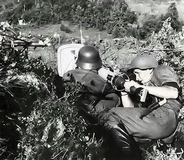 Panzerschreck fire stations.